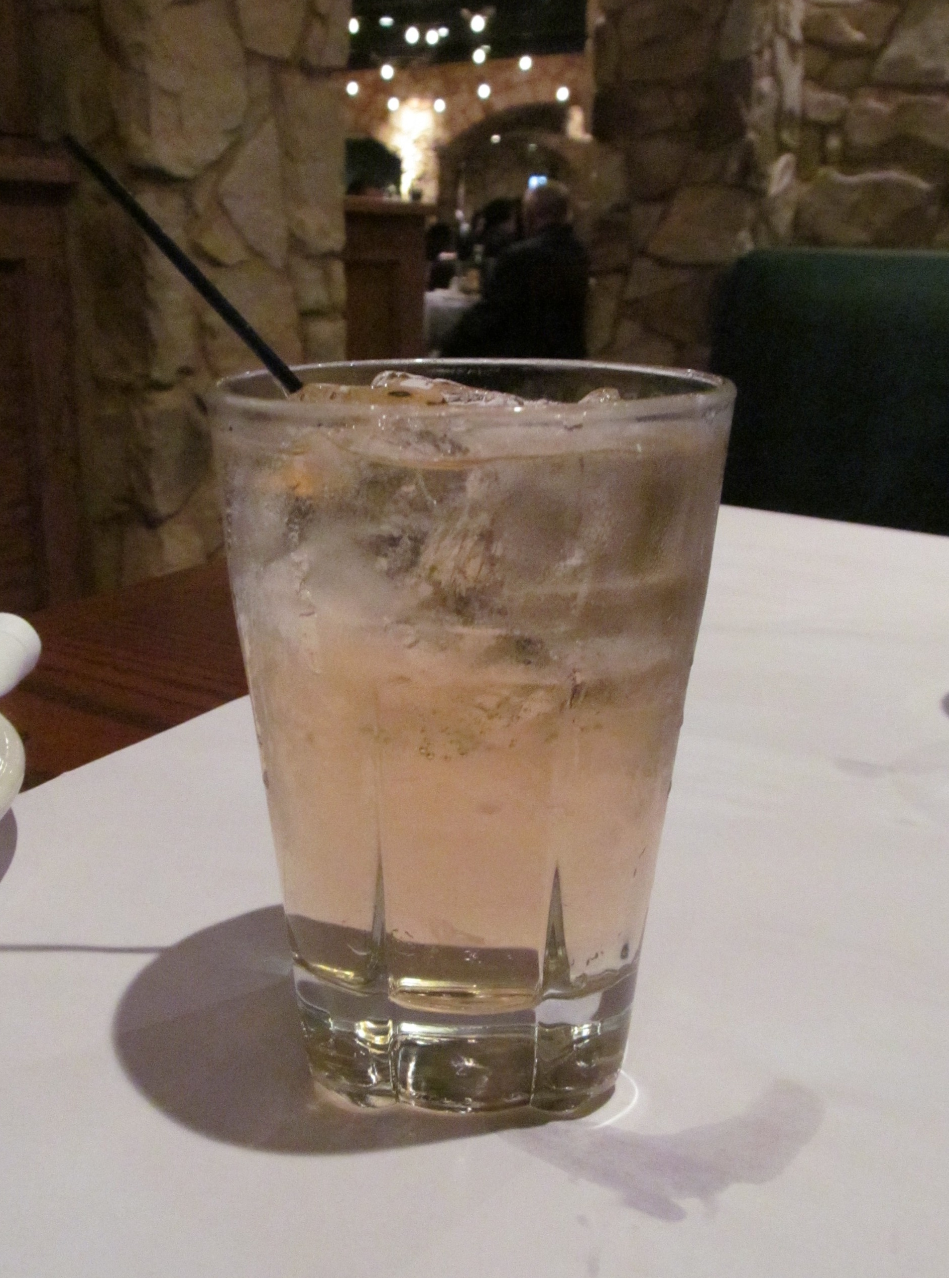 7 and 7, Macaroni Grill, Dunwoody Georgia